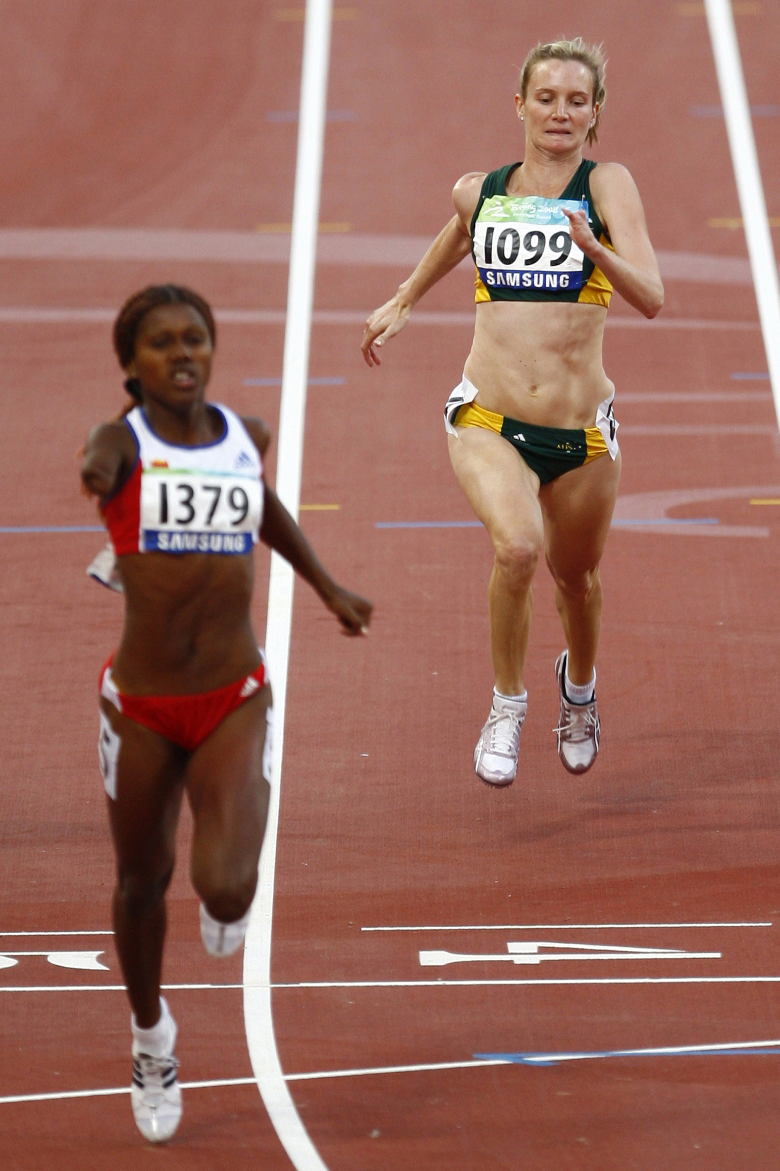 Australian athlete Julie Smith (right) at the finish line of the women's T46 100m final at the Beijing 2008 Paralympic Games, behind the winner, Castillo Yundis of Cuba. Smith finished fourth.